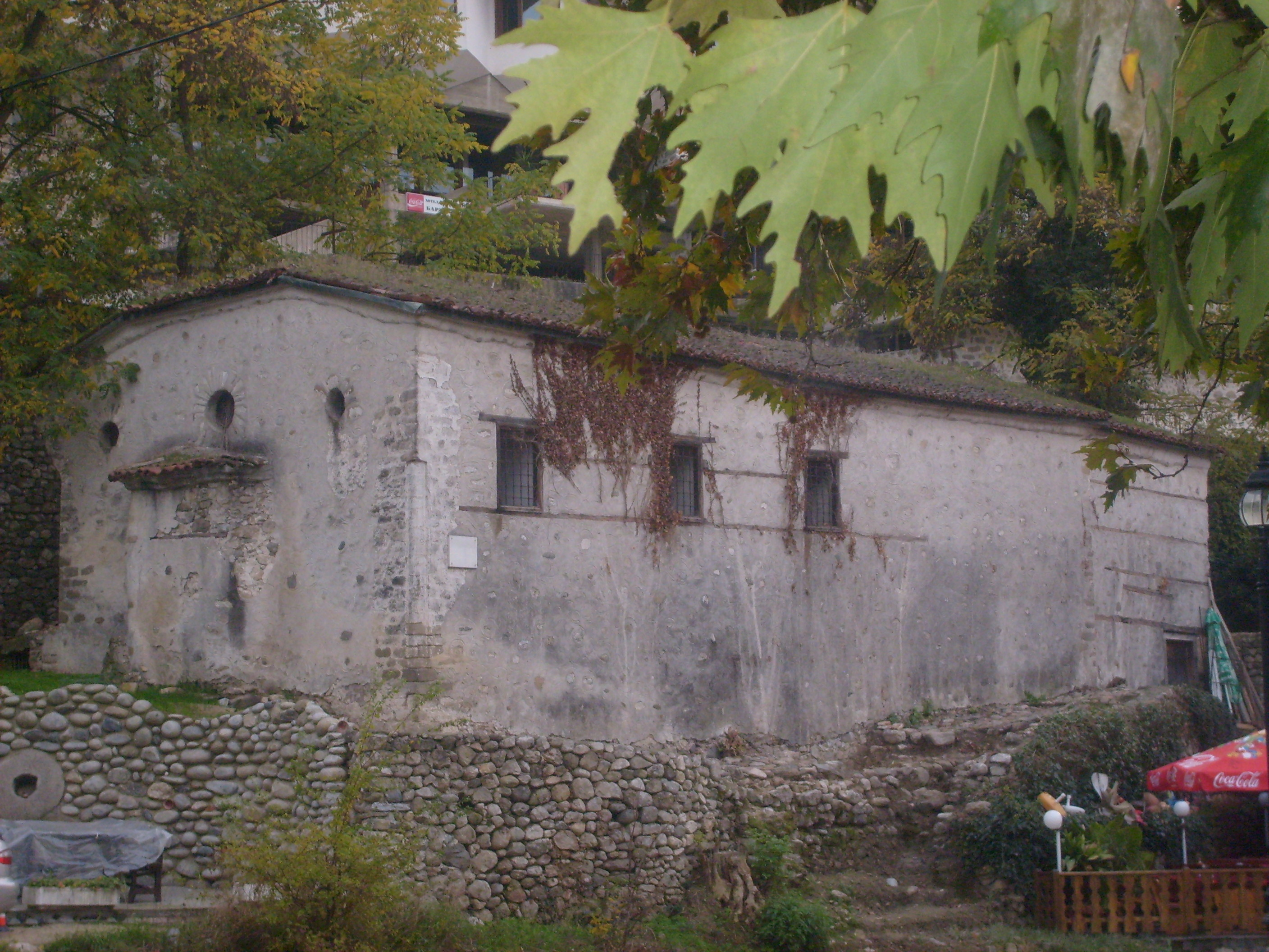 Melnik, Bulgaria